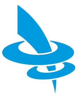 Kiso-town Nagano chapter